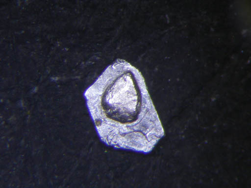 Natural osmium.